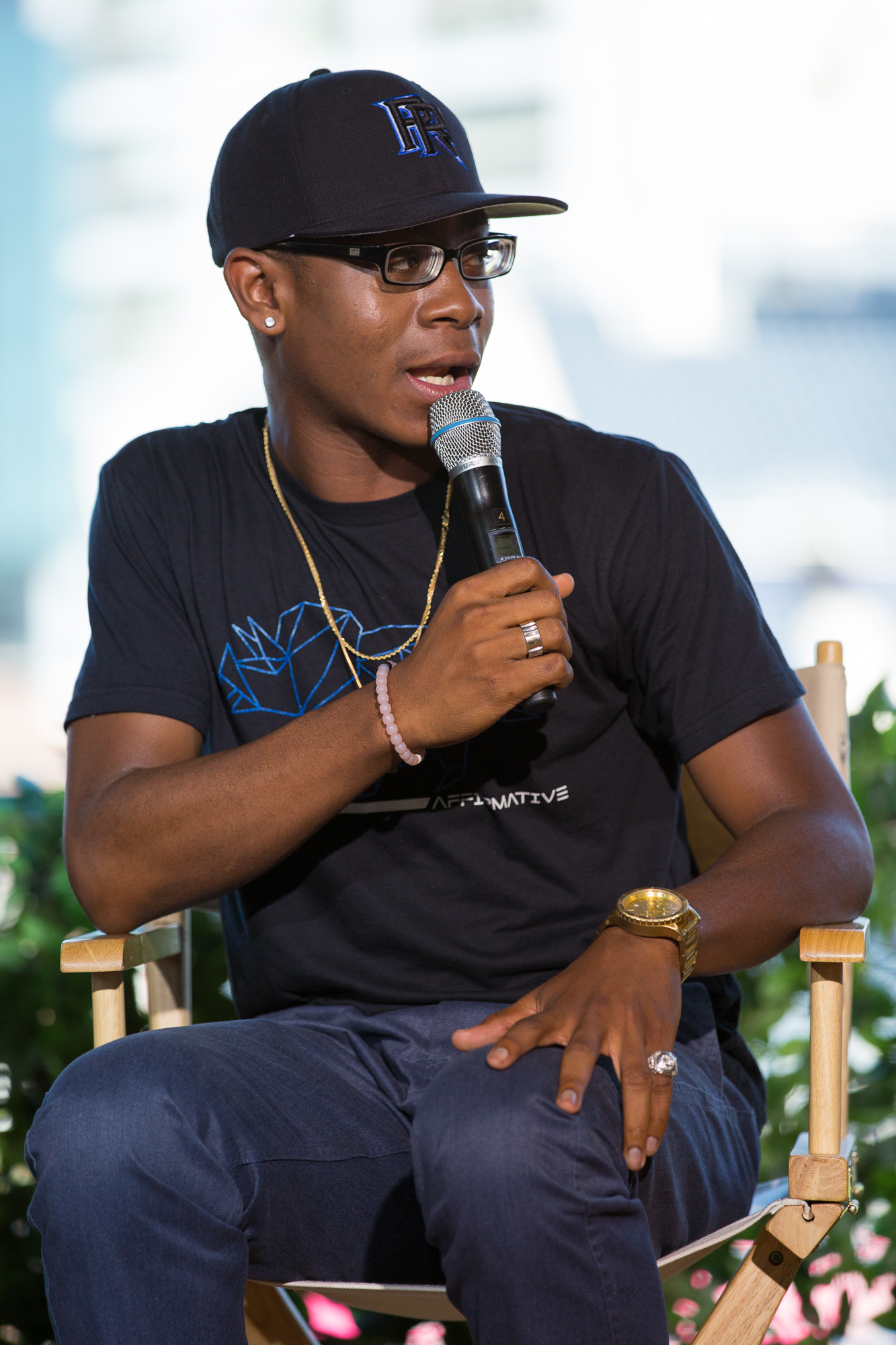 RJ Cyler at the Power Rangers movie discussion at Camp Conival offsite at Petco Park during San Diego Comic-Con 2016